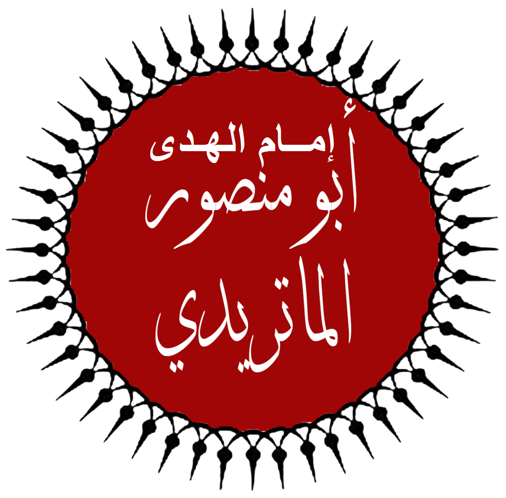 Imam Abu Mansur al-Maturidi